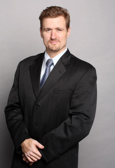 Dave Farrow in 2011